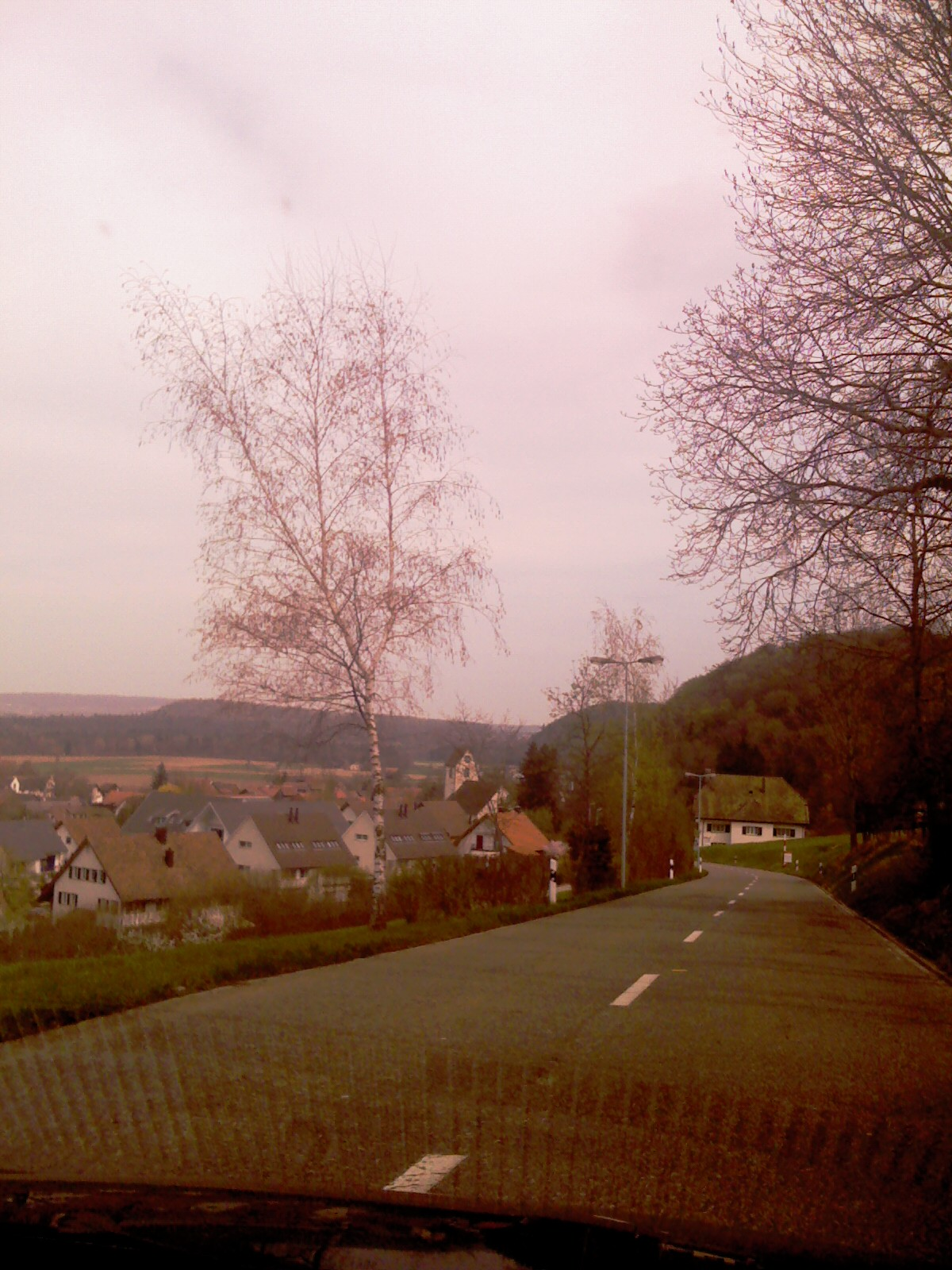 Flaach, Canton Zürich, SwitzerlandEsperanto: Flaach, Kantono Zuriko, Svislando